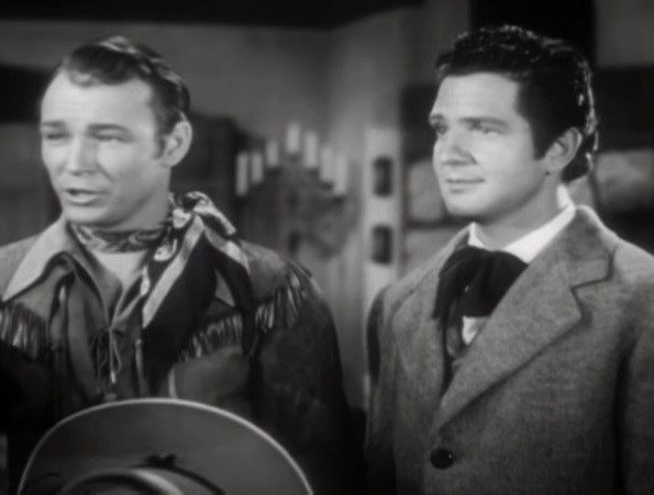 Roy Rogers (left) & Steve Pendleton in Young Buffalo Bill - cropped screenshot